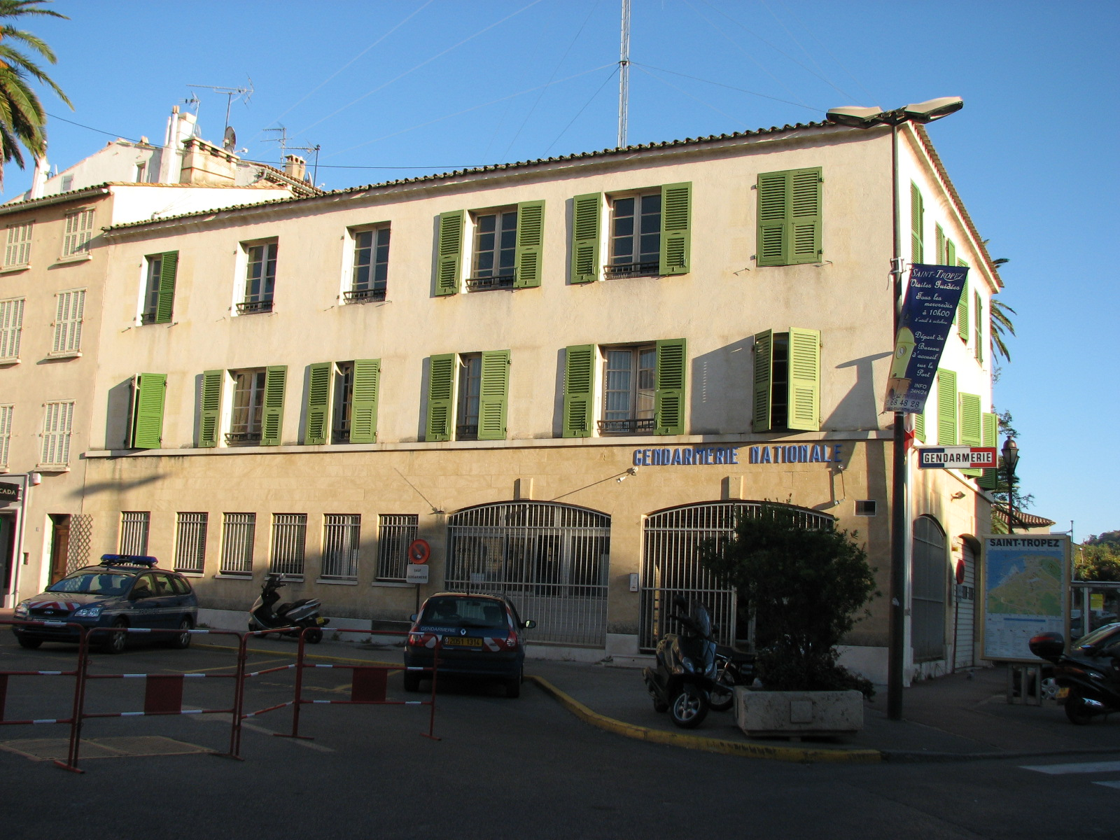 Gendarmerie Nationale (Saint-Tropez).